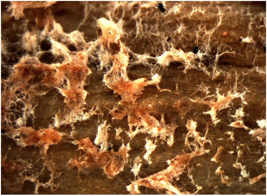 This is a close-up photo of Fusarium spp. from an Asparagus Miner (Ophiomyia simplex) mine on an asparagus stem. The two have been associated closely, and the Asparagus Miner may be a vector for these fungal pathogens.